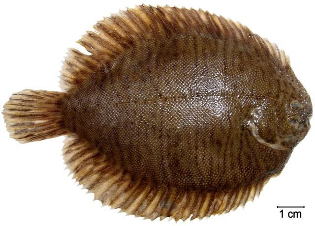 Brazil, Rio Grande do Sul, Brasil,, by Luciano Gomes Fischer